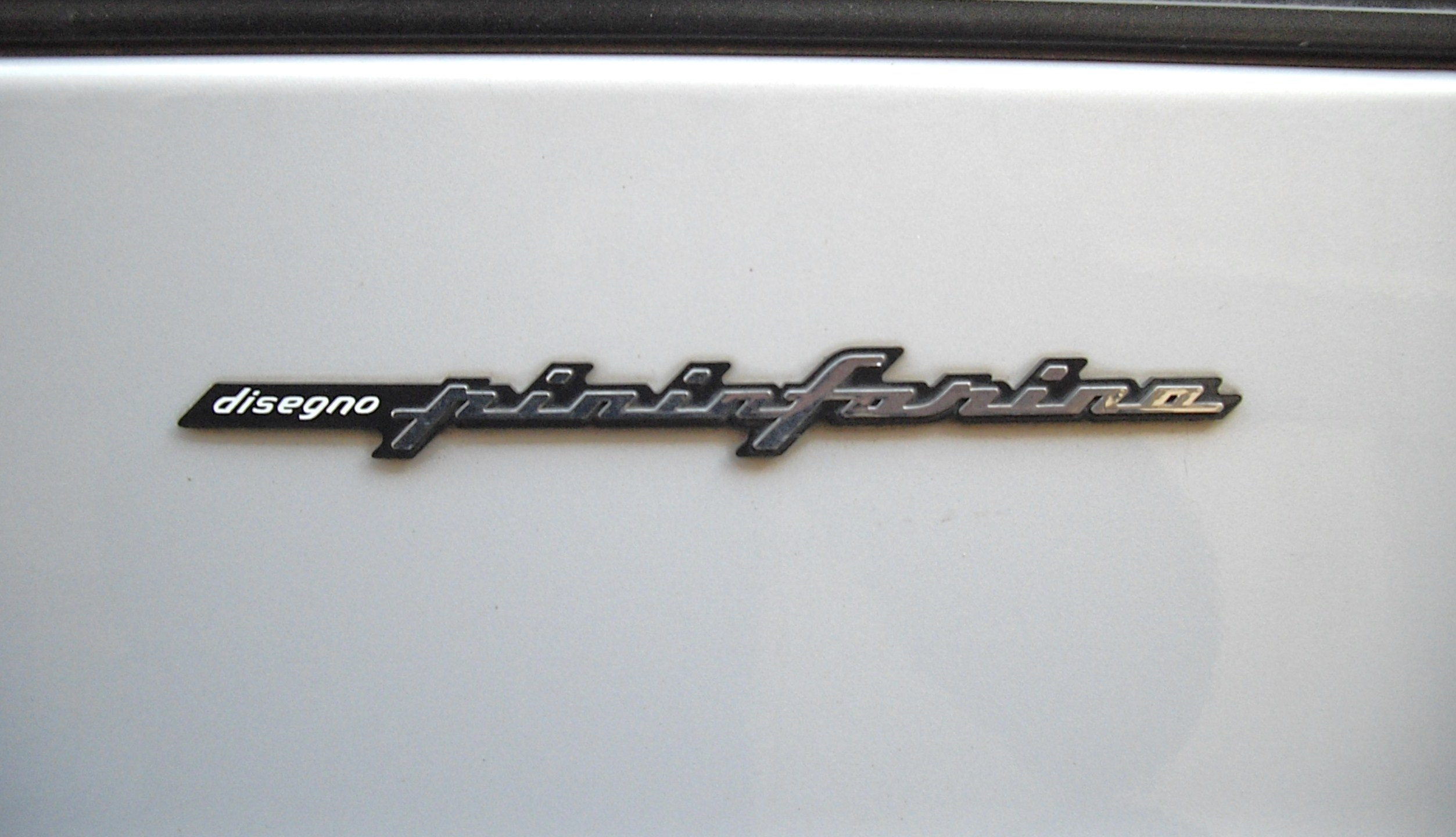 Pininfarina Hyundai Matrix badge